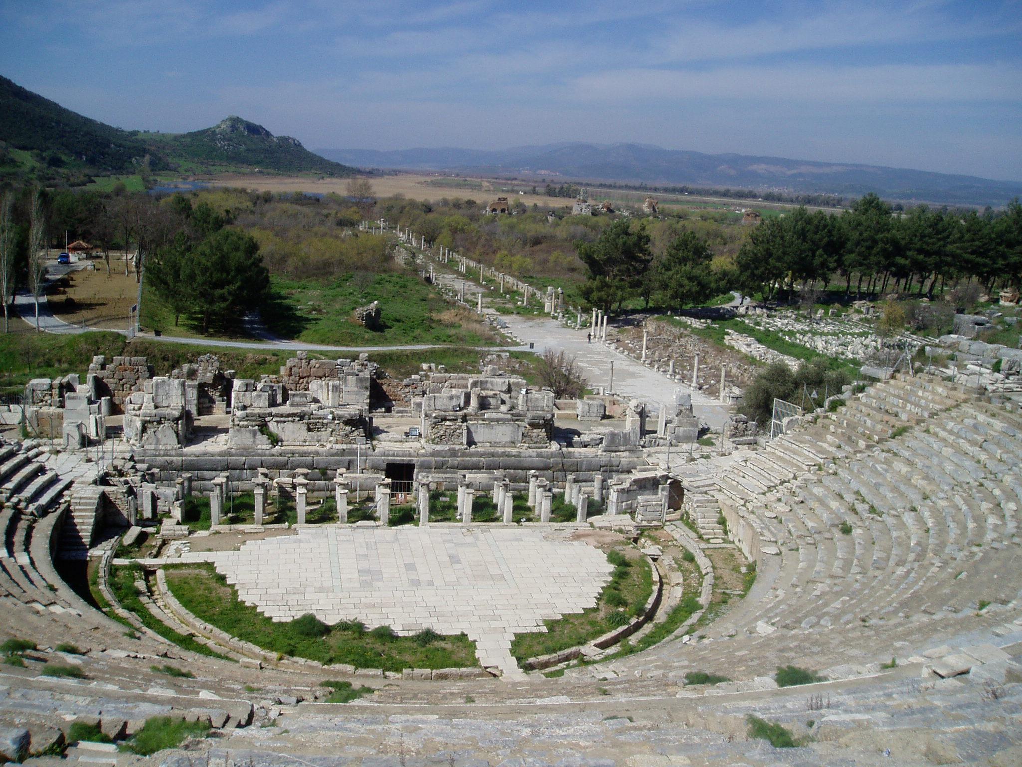 Theatre in Ephesos, Turkey